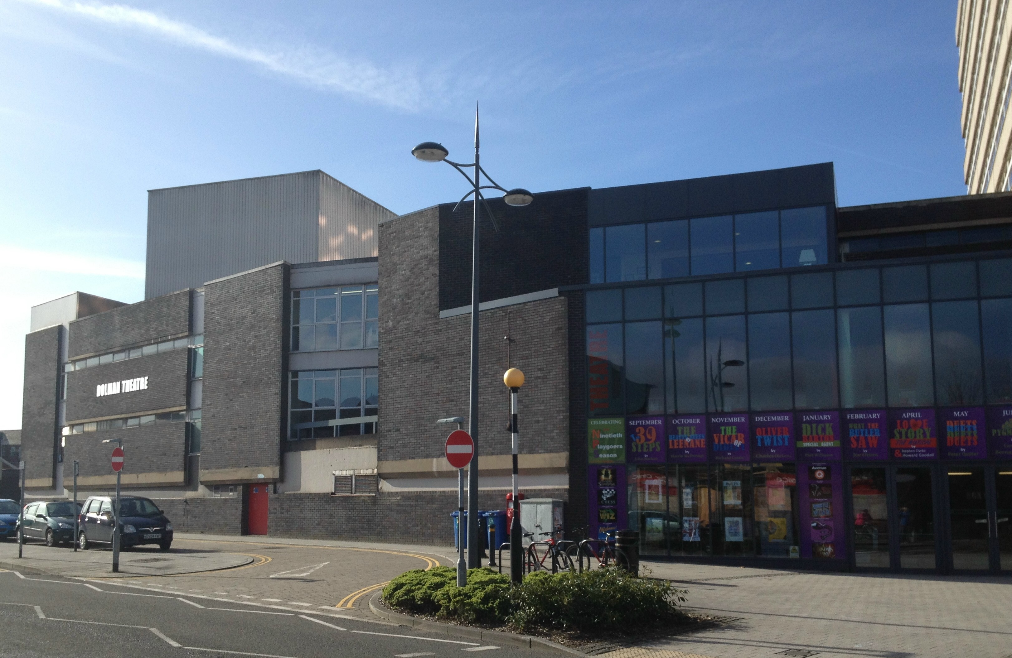 Dolman Theatre, Newport, South Wales